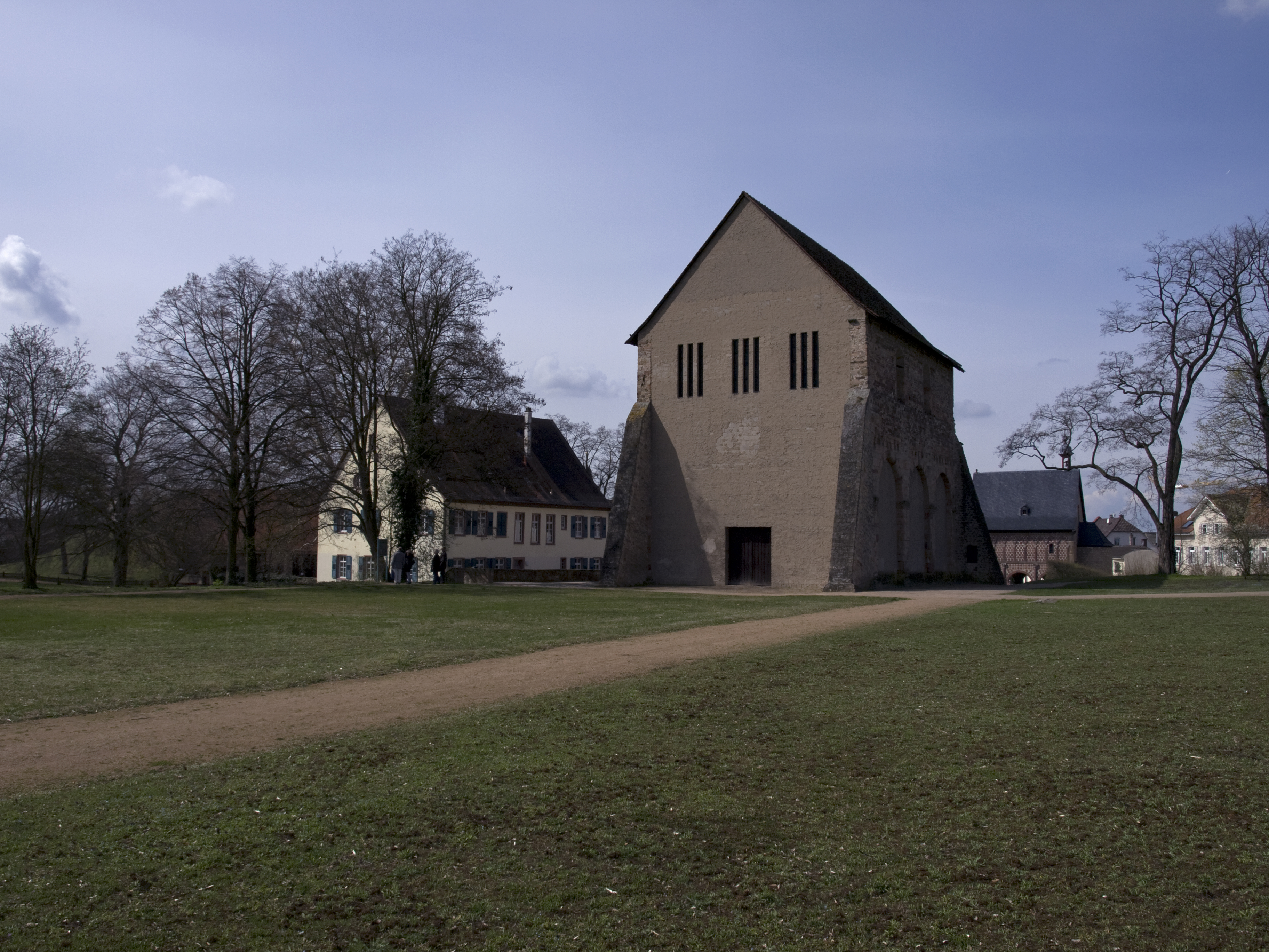 Lorsch Abbey, Church ruins